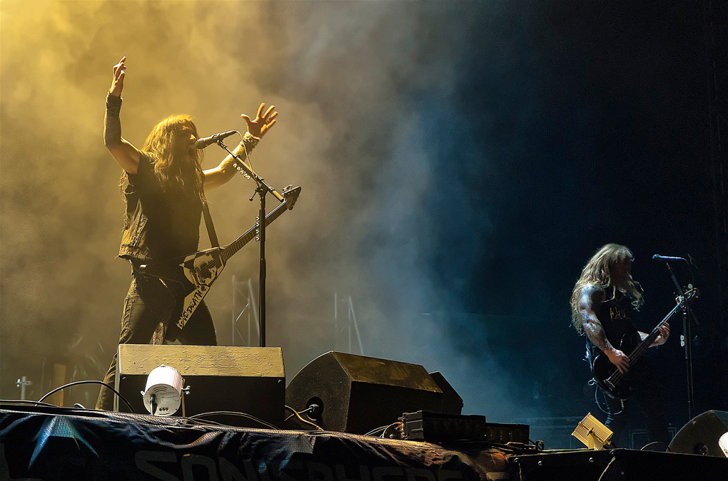 Machine Head performing live in May, 2012.